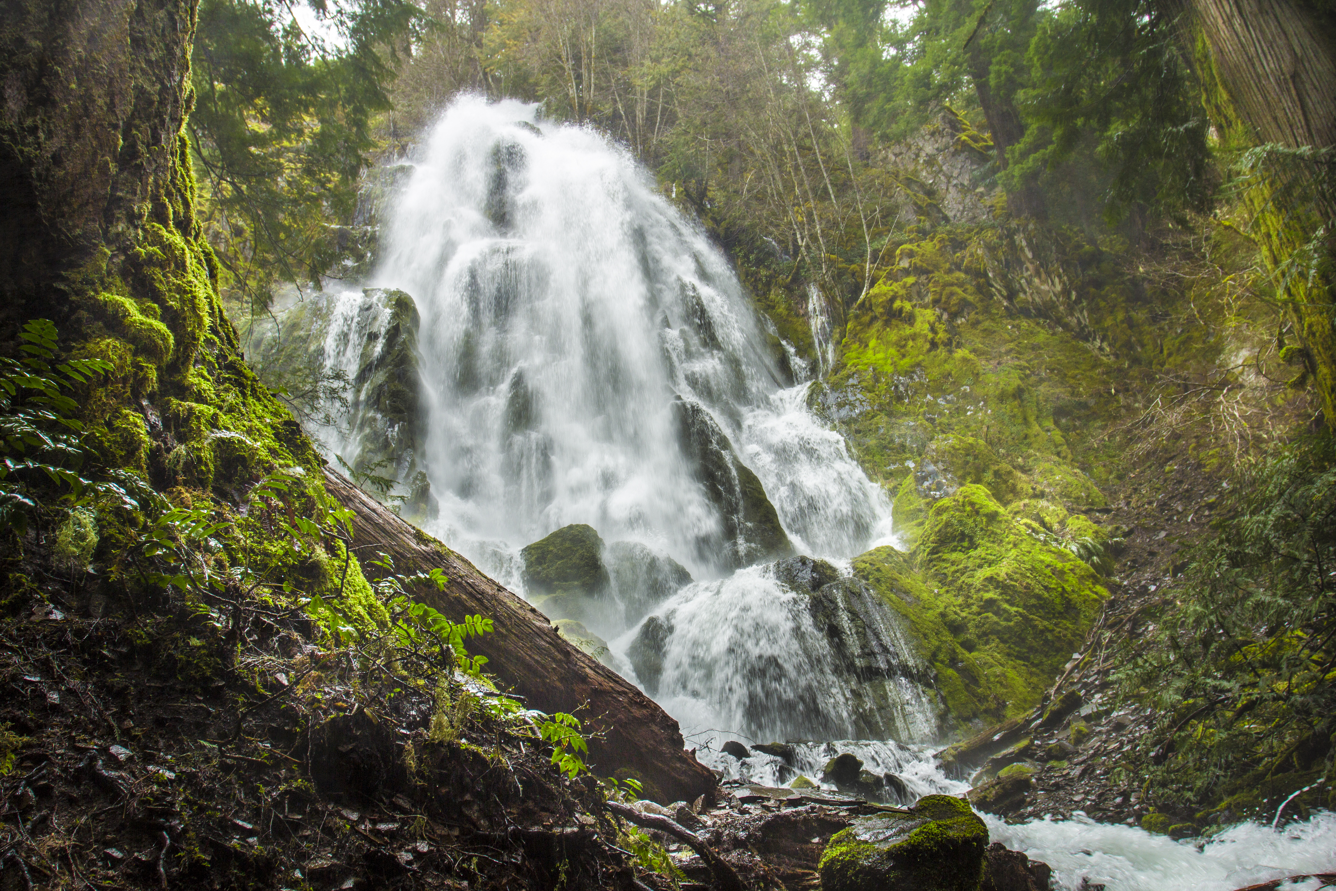 Moonfalls east of Cottage Grove Oregon. These can be a seasonal falls and in the Spring these falls can be dramatic.